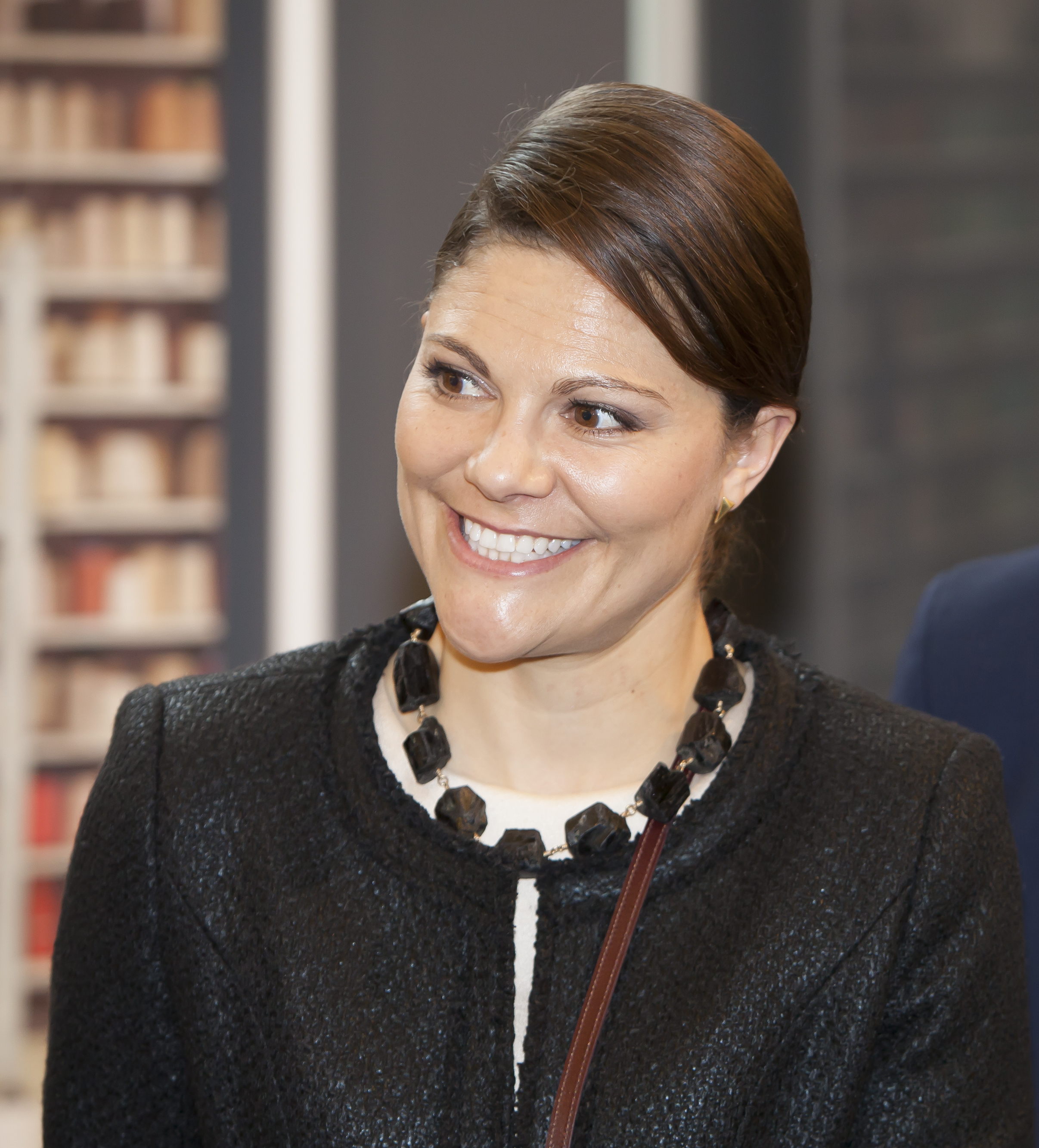 Victoria, Crown Princess of Sweden with her spouse Prince Daniel at an exhibition in Hamburg, Germany